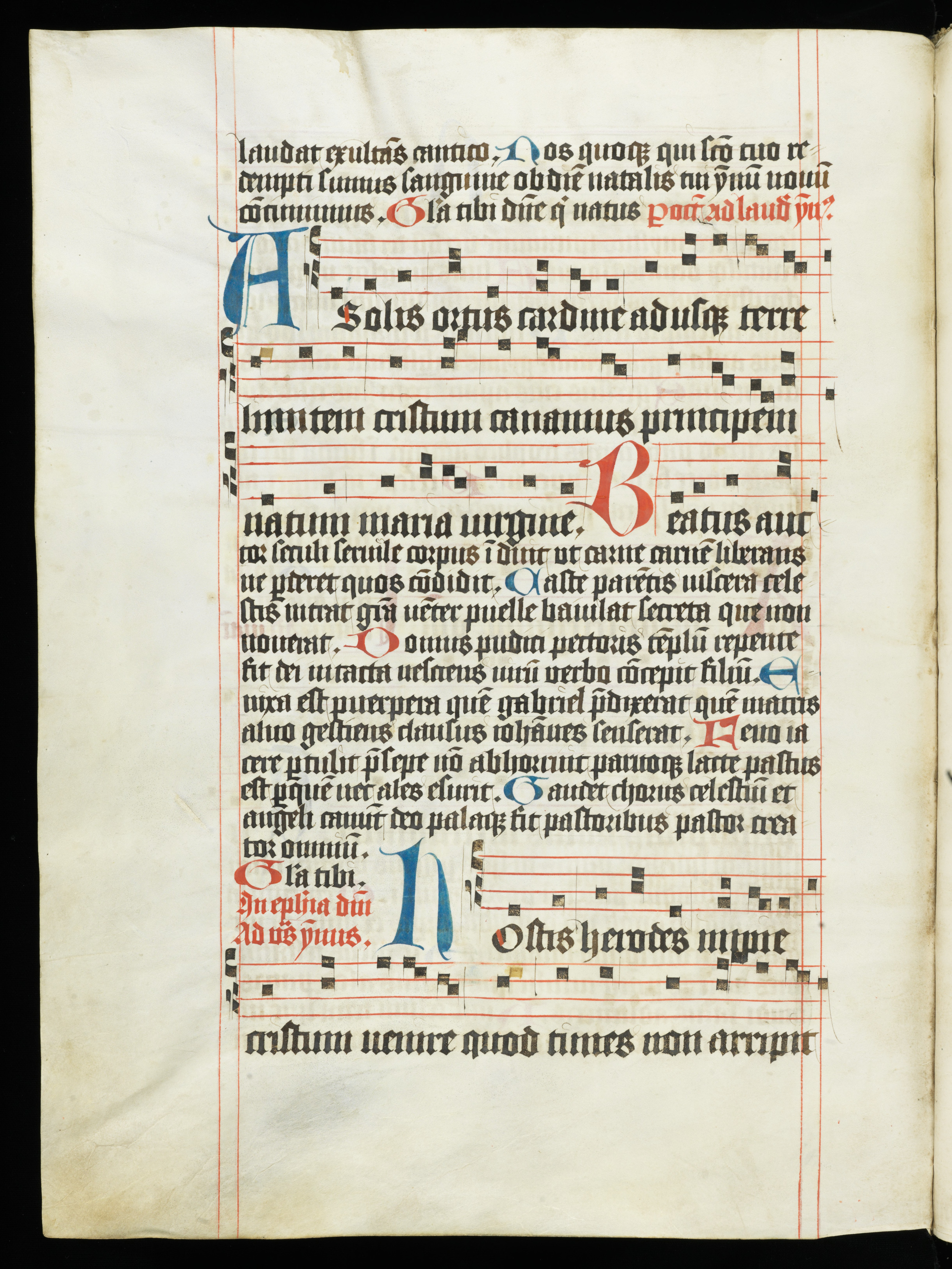 A solis ortus cardine in a late 15th century antiphonary from Kloster St. Katharina, St. Gallen, now in the library of the Dominican Abbey of St. Katharina in Wil